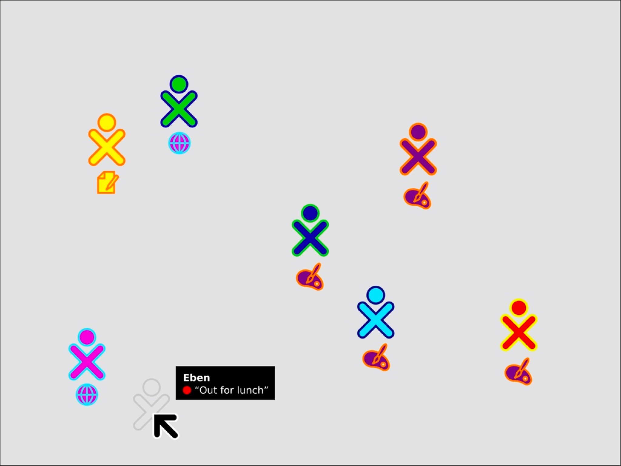 OLPC - "Sugar" - mesh network - friends view: 100-Dollar-Laptop